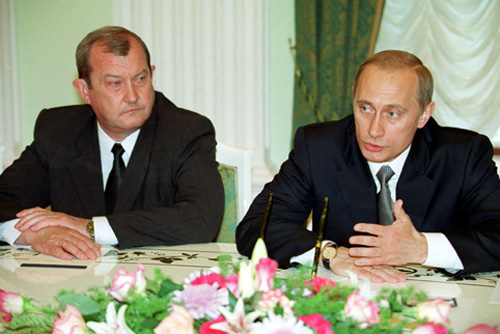 THE KREMLIN, MOSCOW. President Putin introducing Konstantin Pulikovsky, Presidential Plenipotentiary Envoy to the Far Eastern Federal District.